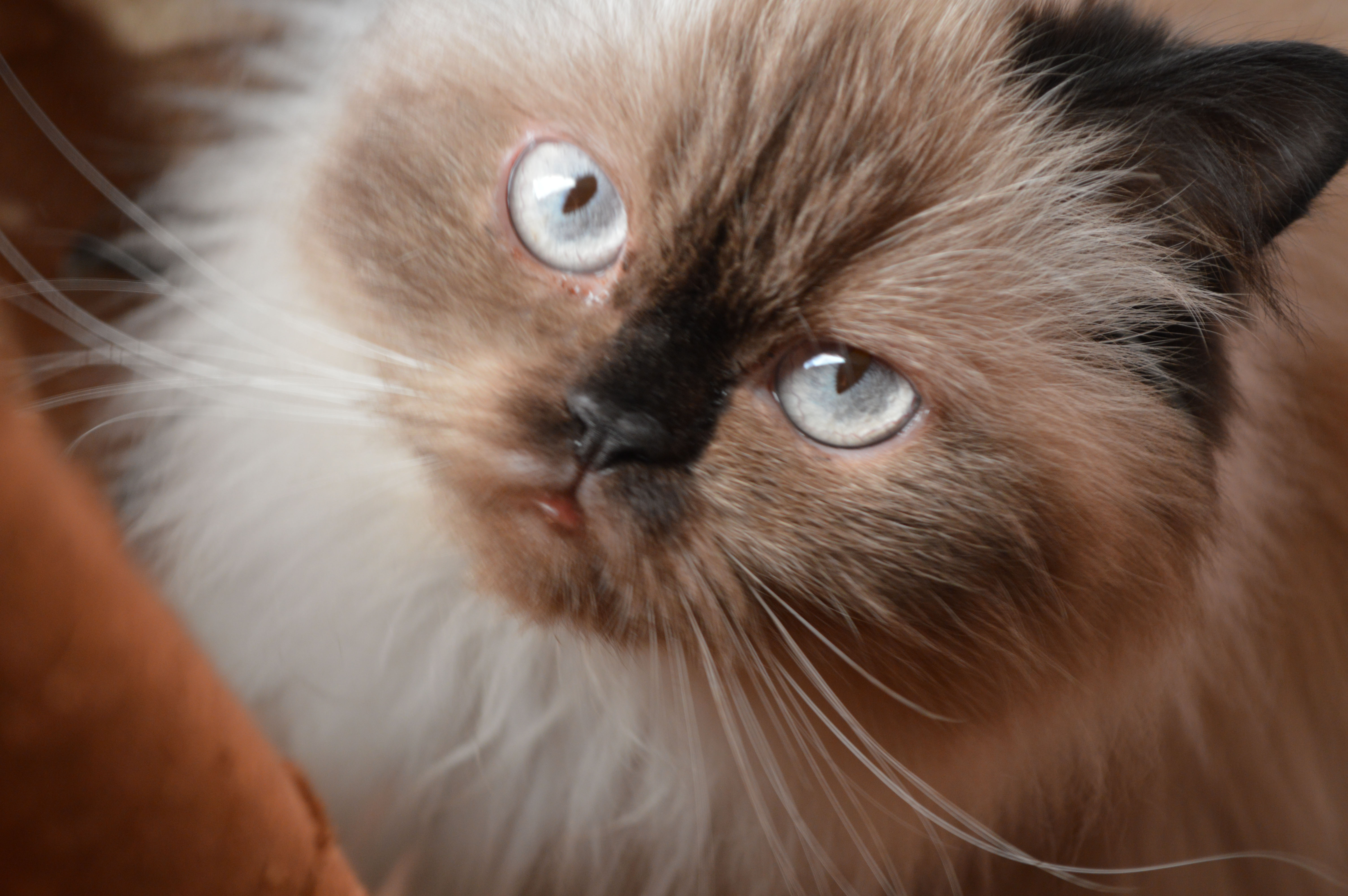 A chocolate point peke-faced himalayan cat